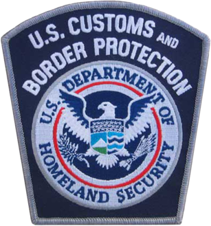 Uniform patch of the U.S. Customs and Border Protection.